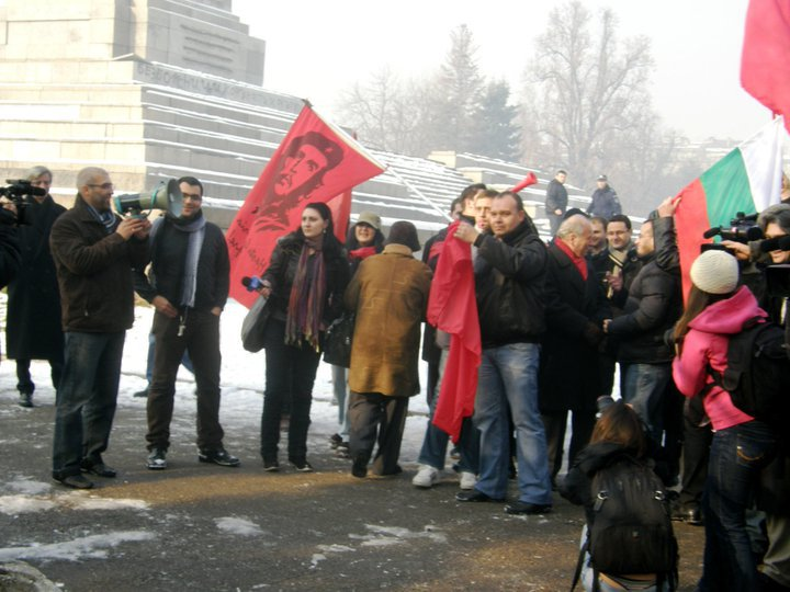 Movement Che Guevara at anti-protest at the Monument of the Soviet army in Sofia which insists for the keeping of the monument after some massive pro-removing of its protests were held.